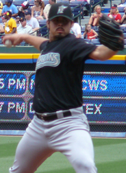 Picture I took of Sergio Mitre on 6-5-07 23:10, 7 June 2007 . . Chrisjnelson . . 184×252 (100,988 bytes)